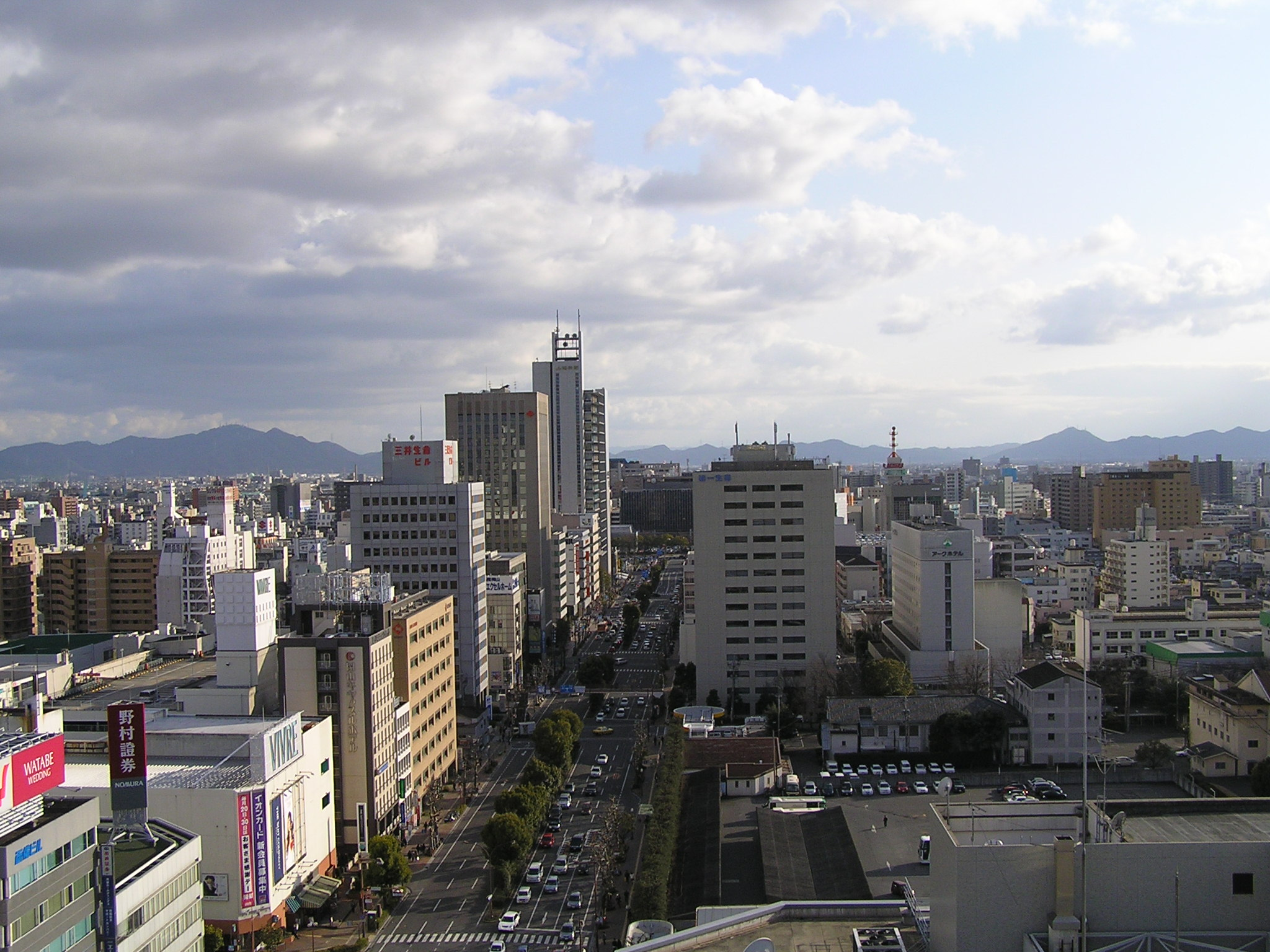 Okayama City office street 2008.2